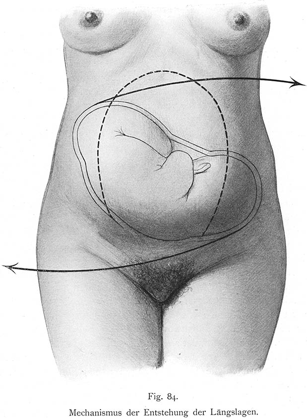 Illustration from Grundriss zum Studium der Geburtshülfe 1902